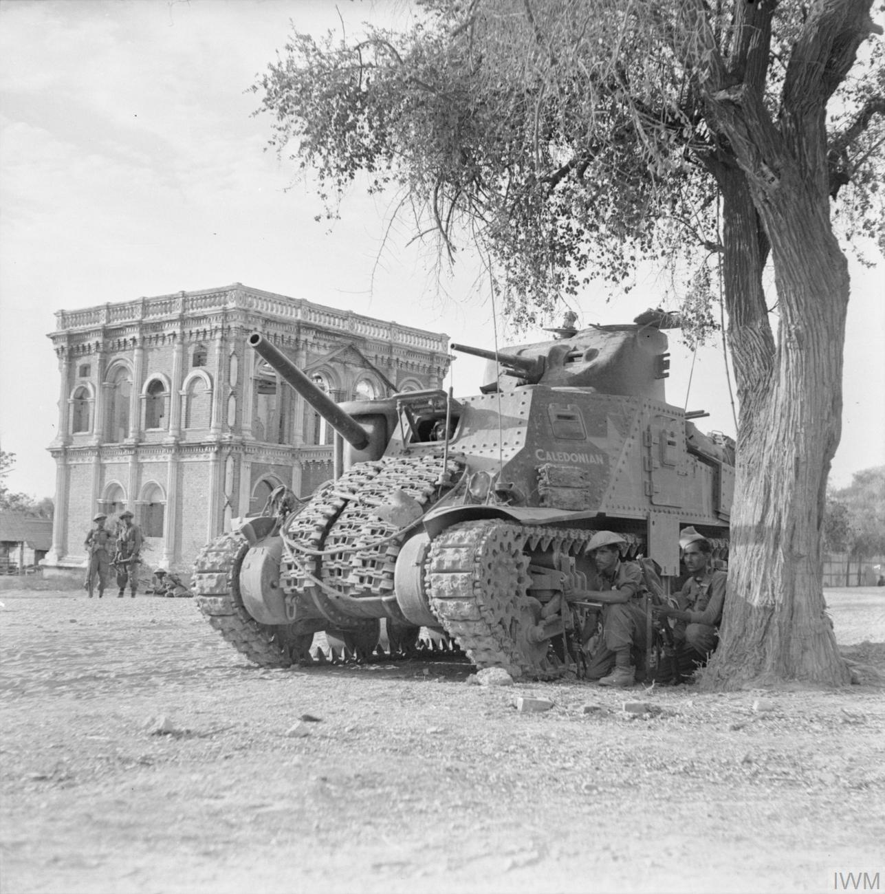 The British Army in Burma 1945 Infantry of 19th Indian Division take cover behind a Lee tank during street fighting in Mandalay, 9-10 March 1945.